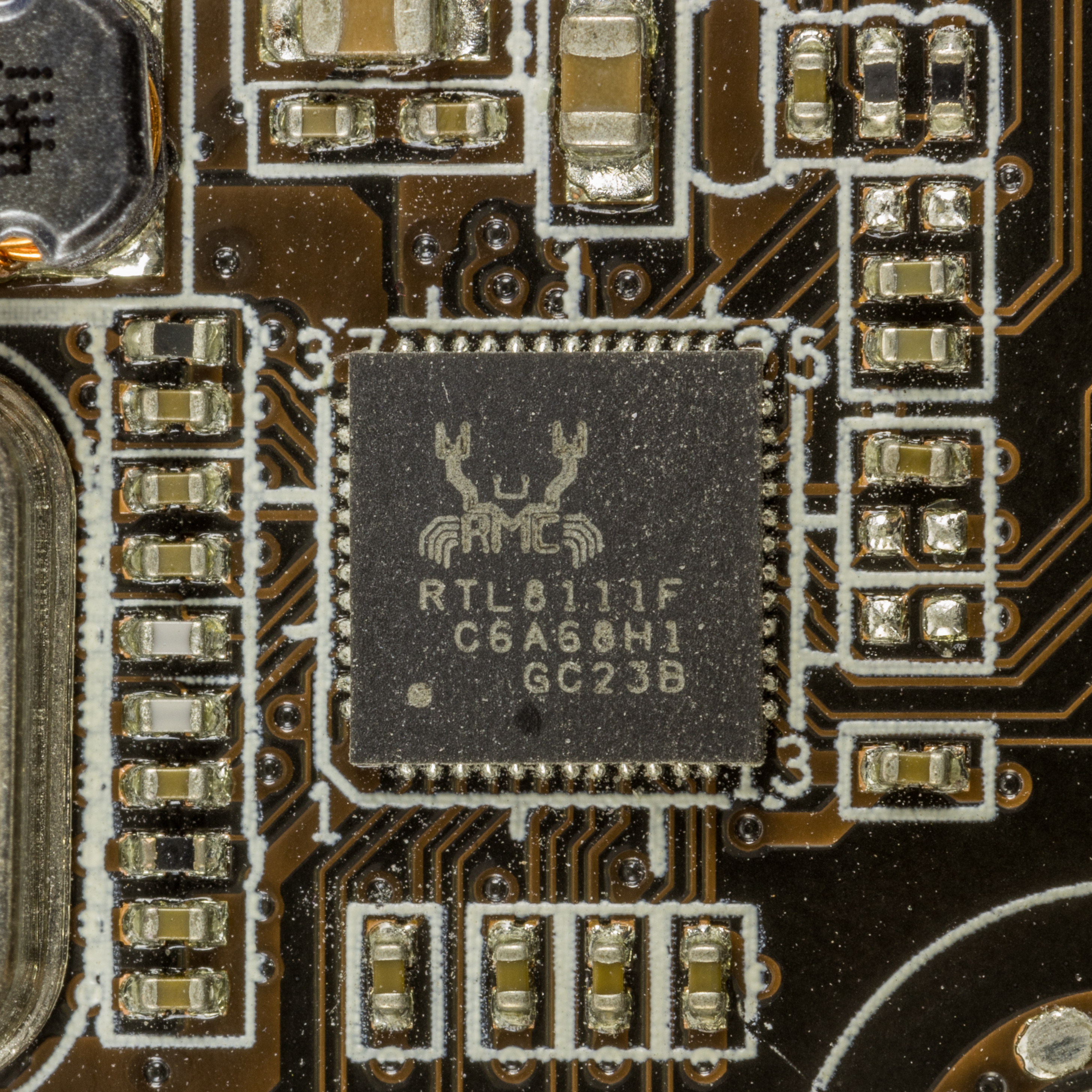 Asus P8H61-MX USB3 - Realtek RTL8111F - Integrated gigabit ethernet controller. Package: 48-pin QFN